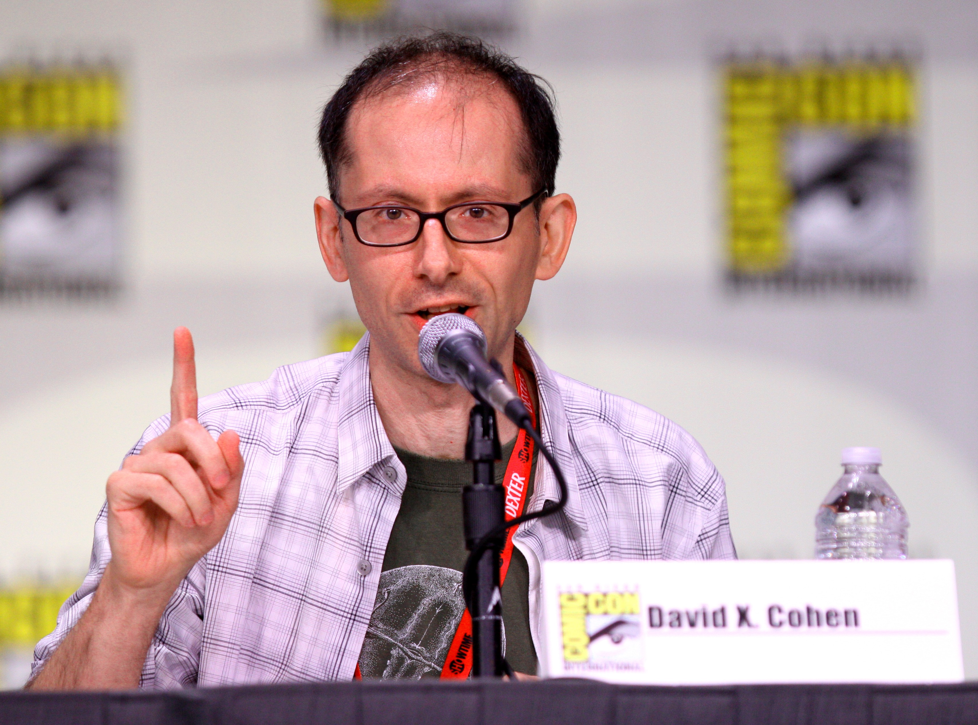 David X. Cohen at the 2011 San Diego Comic-Con International in San Diego, California.